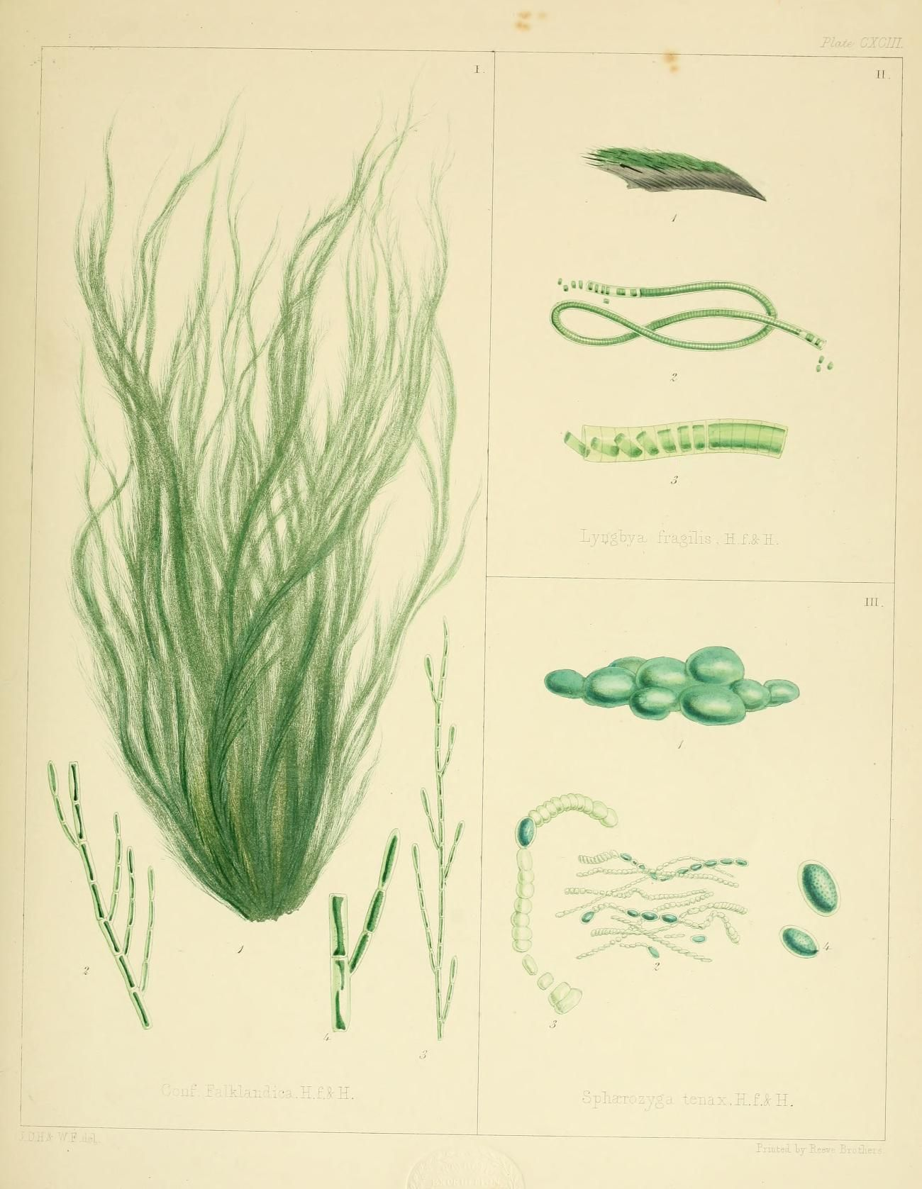 jpg of Plate CLXCIII of Hooker's Flora Antarctica. Made up of three smaller images of various species of Chlorophyta. Fig I: Conferva Falklandica Hook. fil. et Harv.; Fig II: Lyngbya fragilis Hook. fil. et Harv.; Fig III: Sphaerozyga tenax Hook. fil. et Harv.